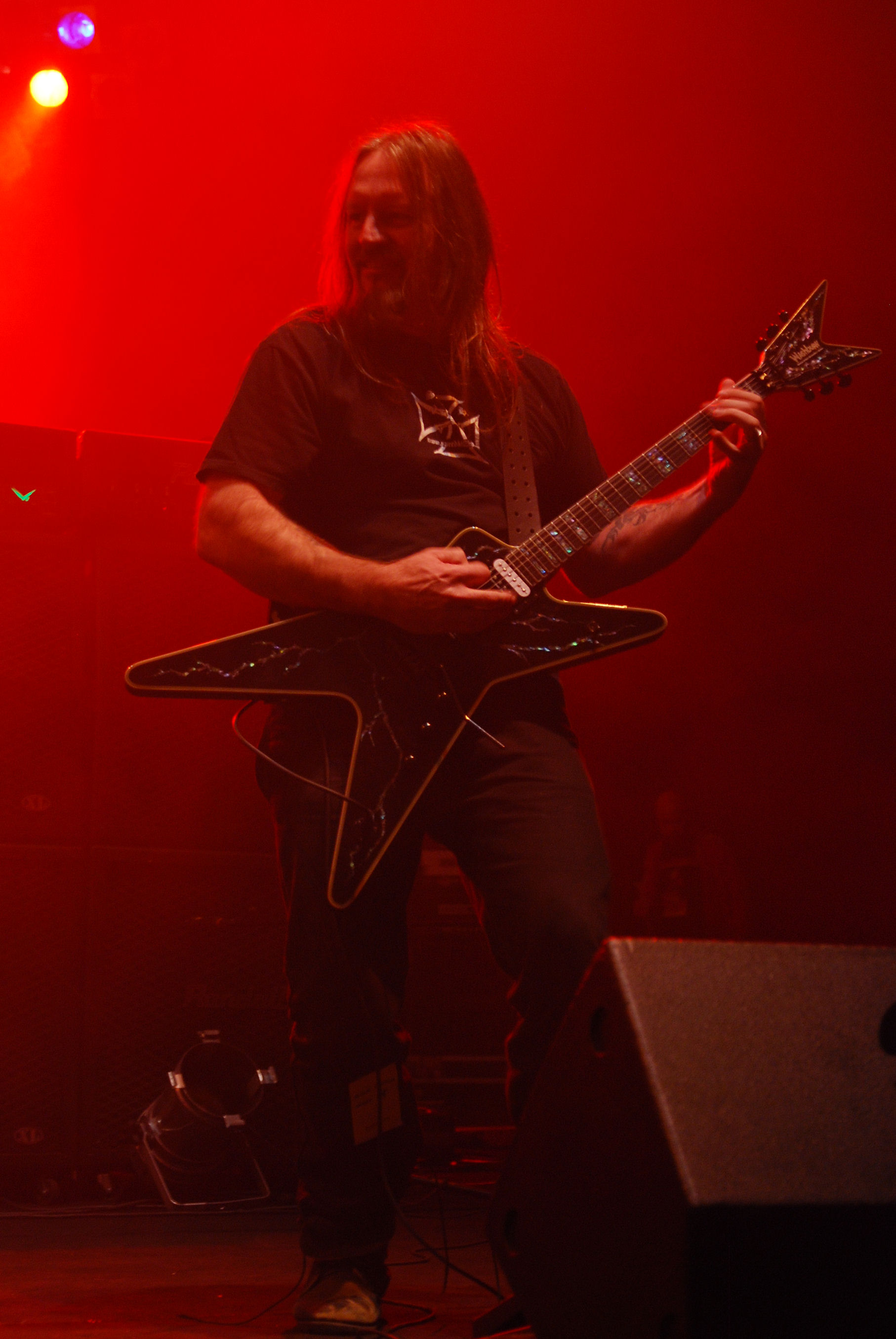 Derek Tailer "Skull" from Overkill during Metalmania 2008 festival